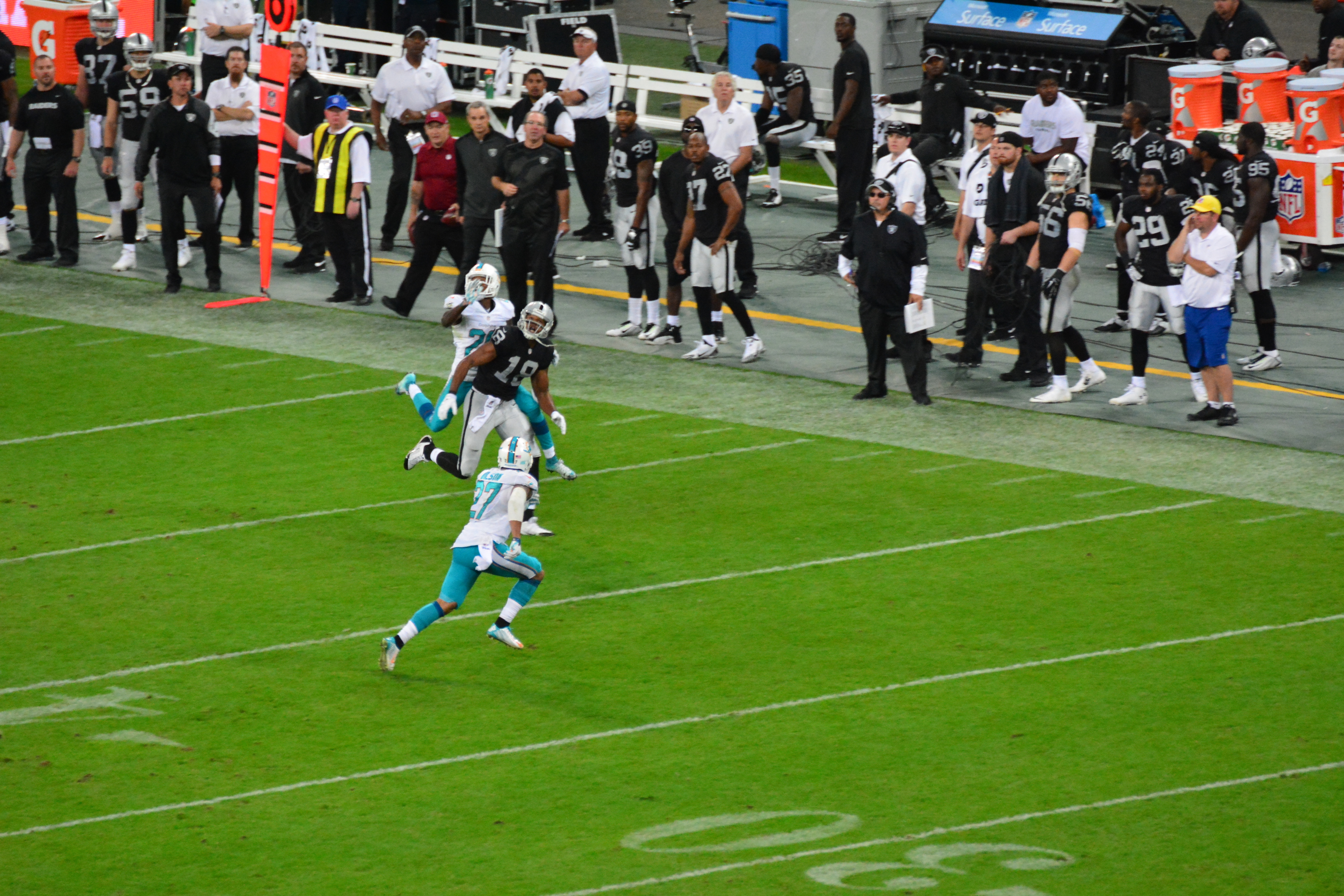 Oakland Raiders wide receiver Andre Holmes runs a route to catch a pass, while defended by the Miami Dolphins' Will Davis in the teams' game at Wembley Stadium in London in 2014.